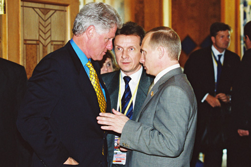 BANDAR SERI BEGAWAN, BRUNEI. President Putin with US President Bill Clinton.